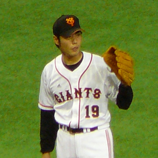 Koji Uehara, pitcher of the Yomiuri Giants, at Tokyo Dome.